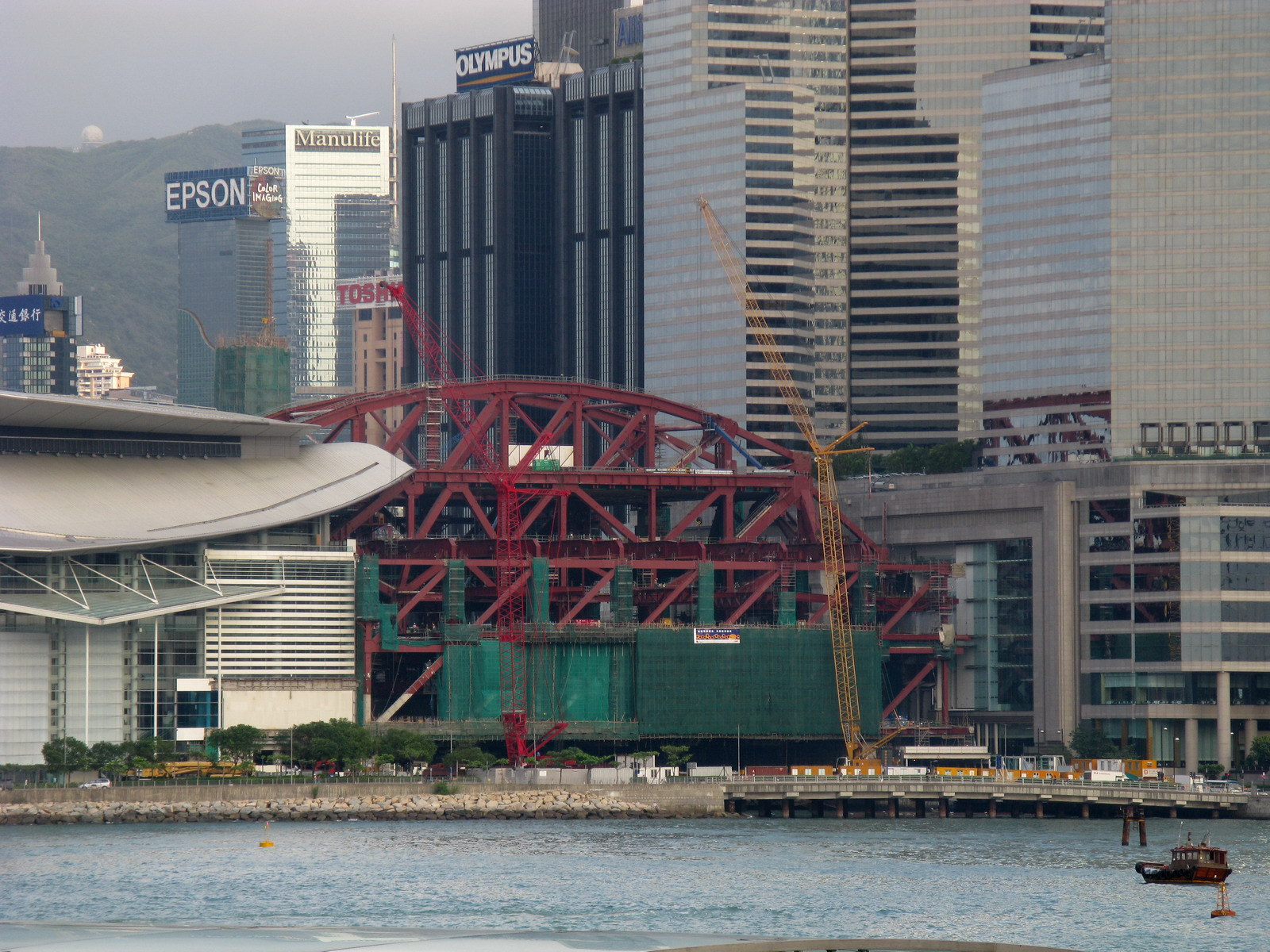 Expansion Project of HKCEC (2008/10)